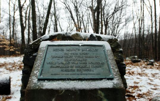 My photo of Nine Men's Misery in Cumberland Rhode Island.